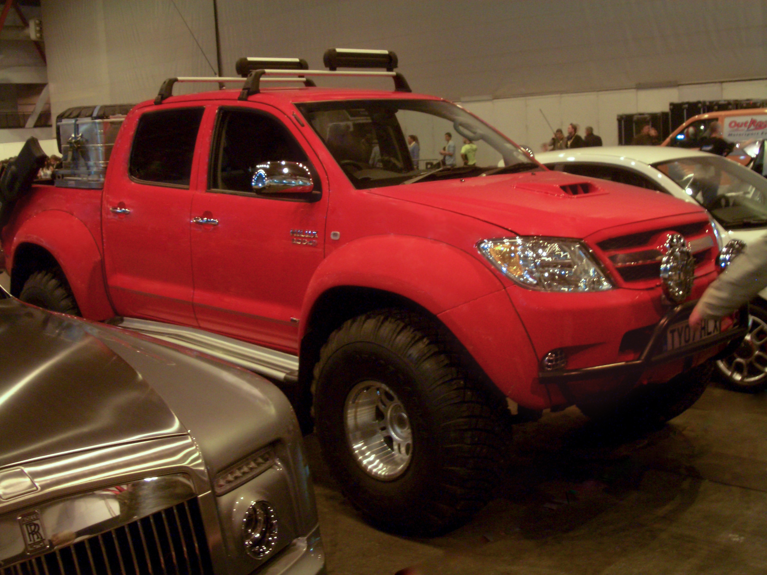 The Toyota Hilux pickup truck used on Top Gear's polar expedition, on display at the Earl's Court motor show in 2007.